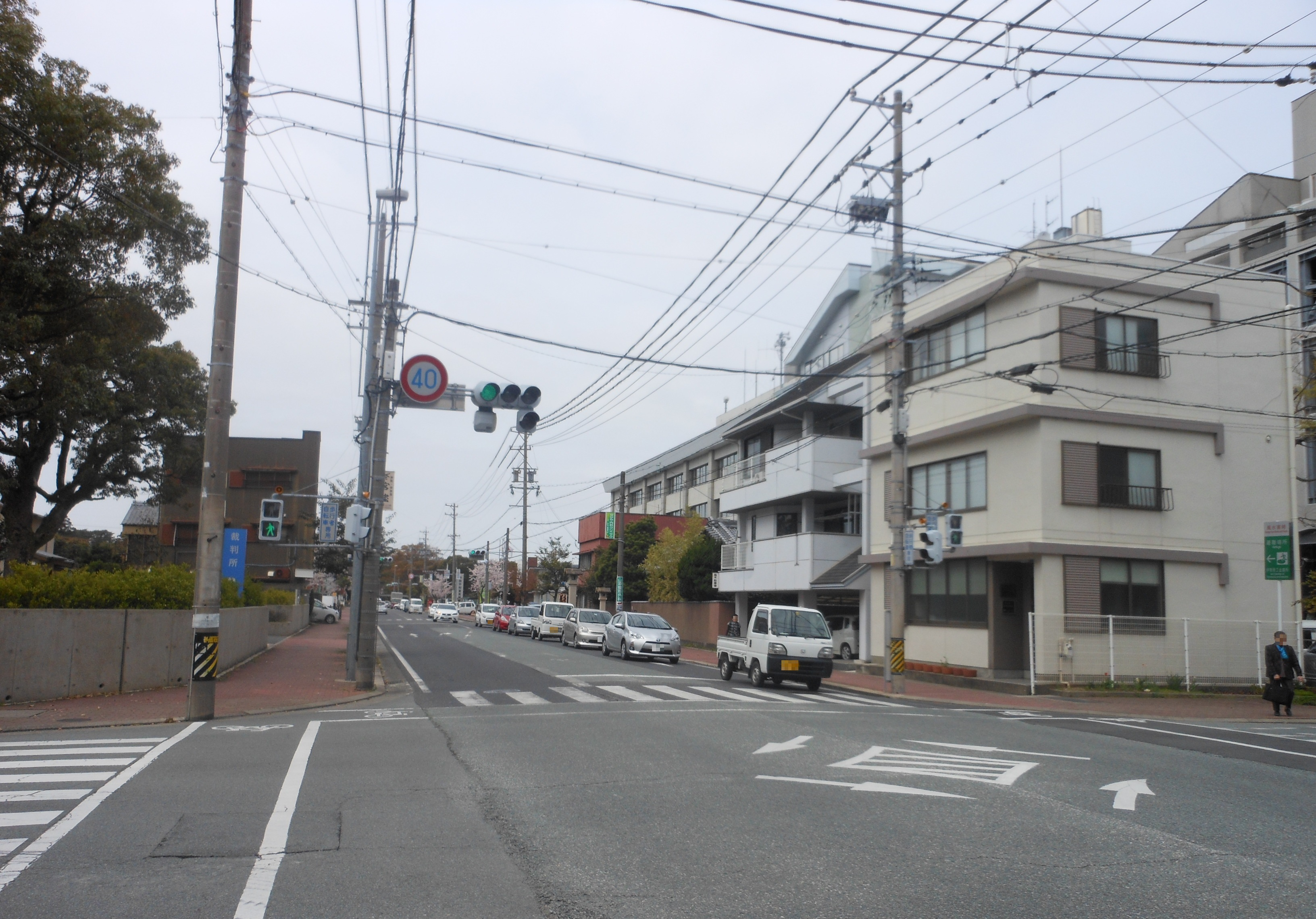 The Ise Summary Court Intersection in Ise City, Mie Prefecture, Japan